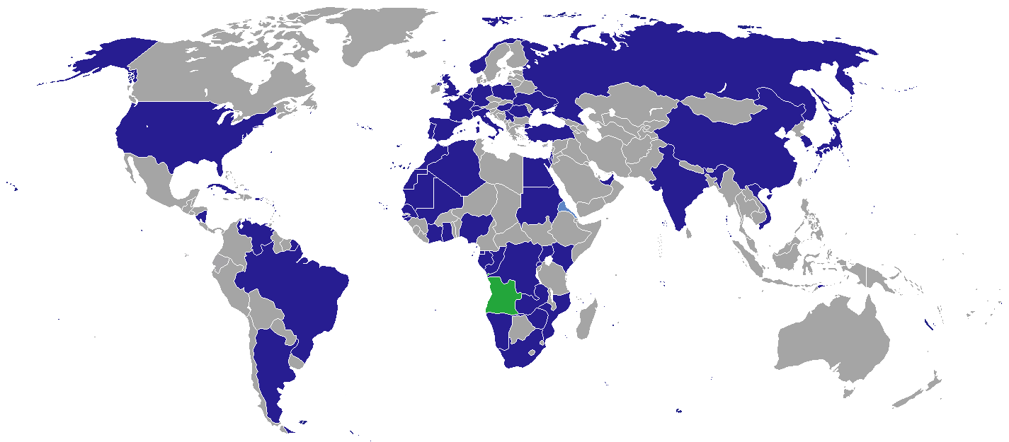 Map of diplomatic missions in Angola